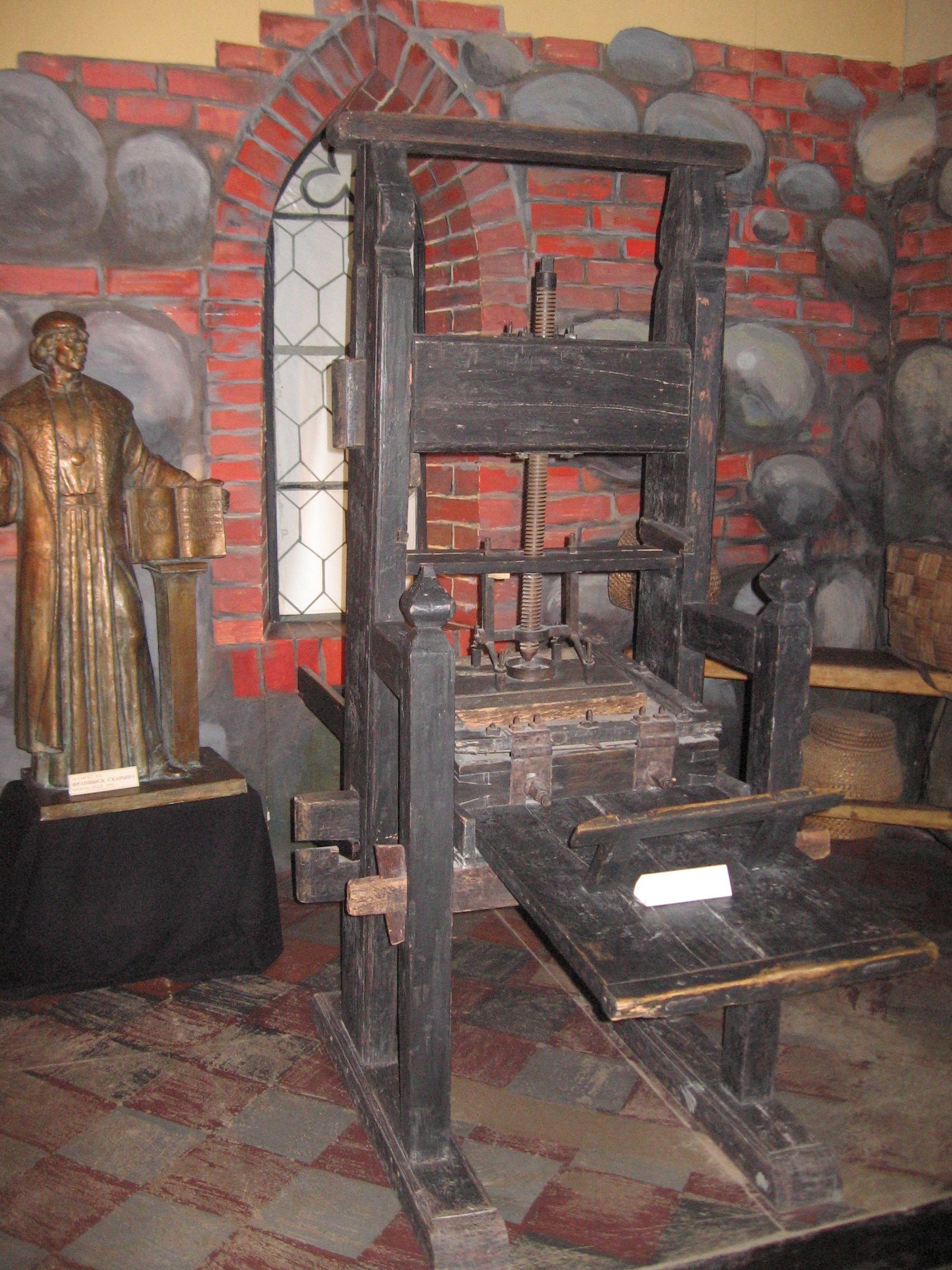 Printing machine of Johanes Gutenbrg